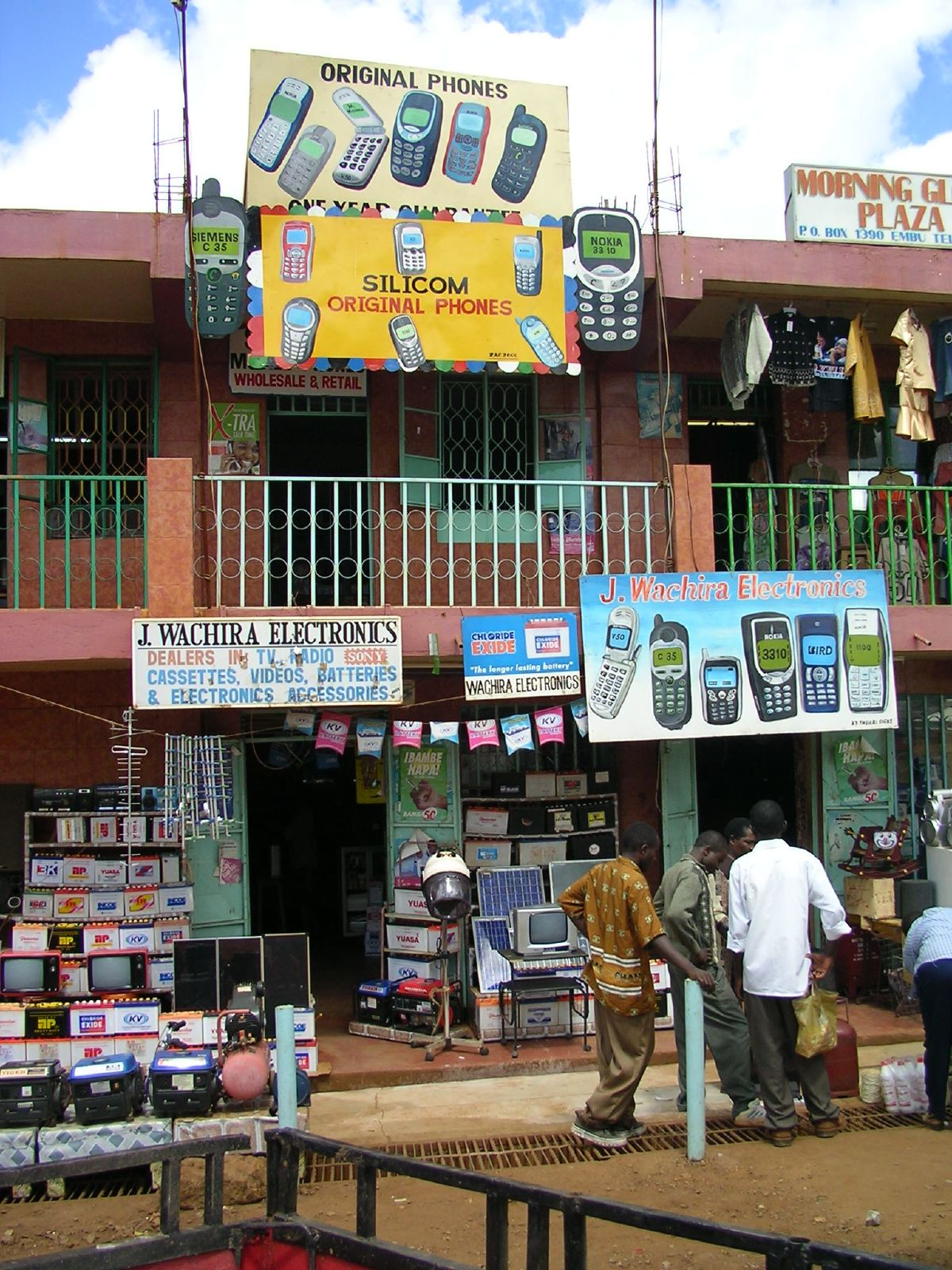 Embu, Kenya